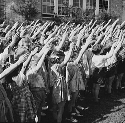 A group of U.S. schoolchildren performing the old-style, however, not following the instructions: "At the words, 'to my Flag,' the right hand is extended gracefully, palm upward, toward the Flag, and remains in this gesture till the end of the affirmation; whereupon all hands immediately drop to the side." Bellamy salute